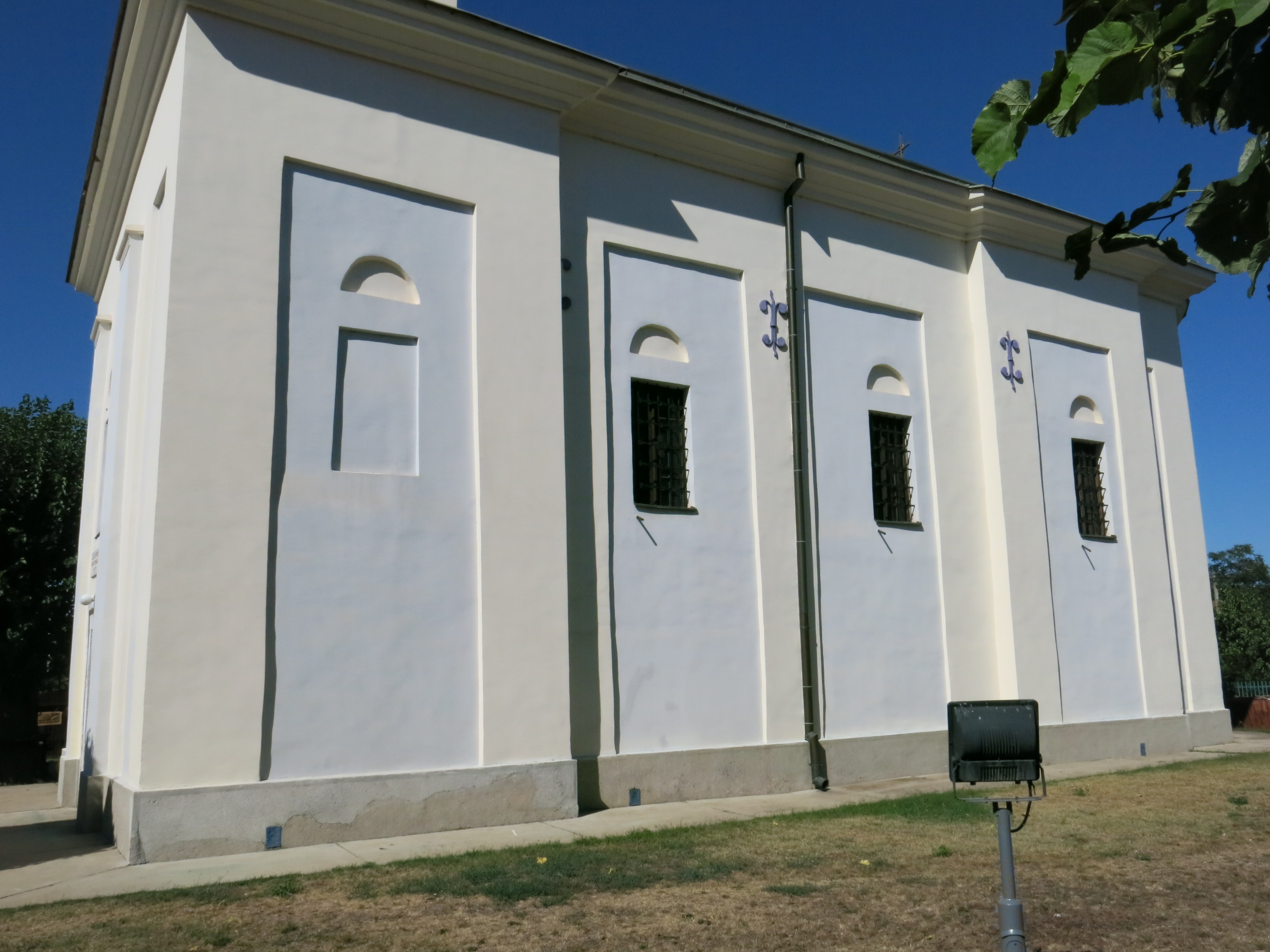 Kolari, Church of the Holy Apostles Peter and Paul